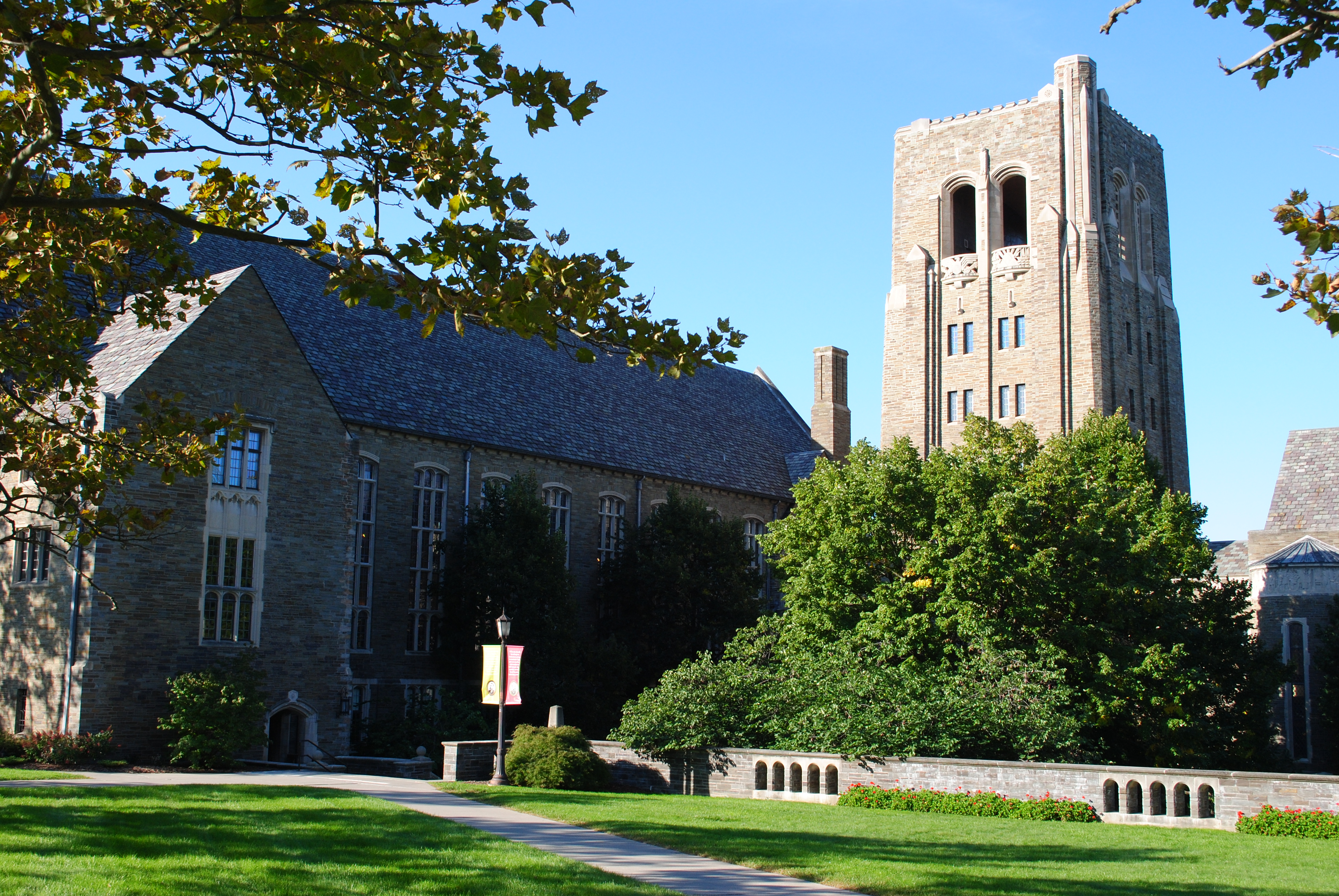 Cornell Law School front landscape